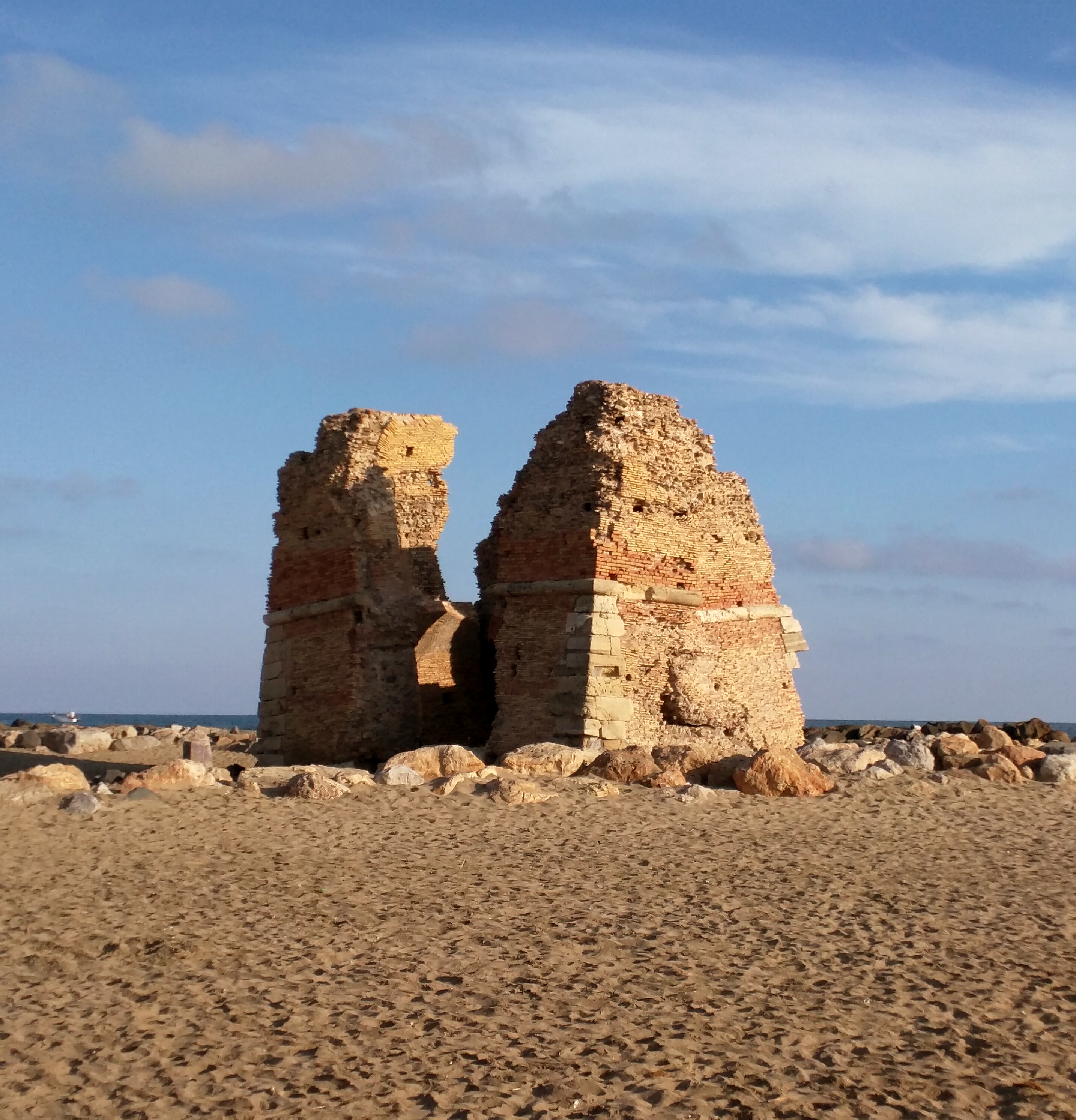 Torre Flavia (Ladispoli)